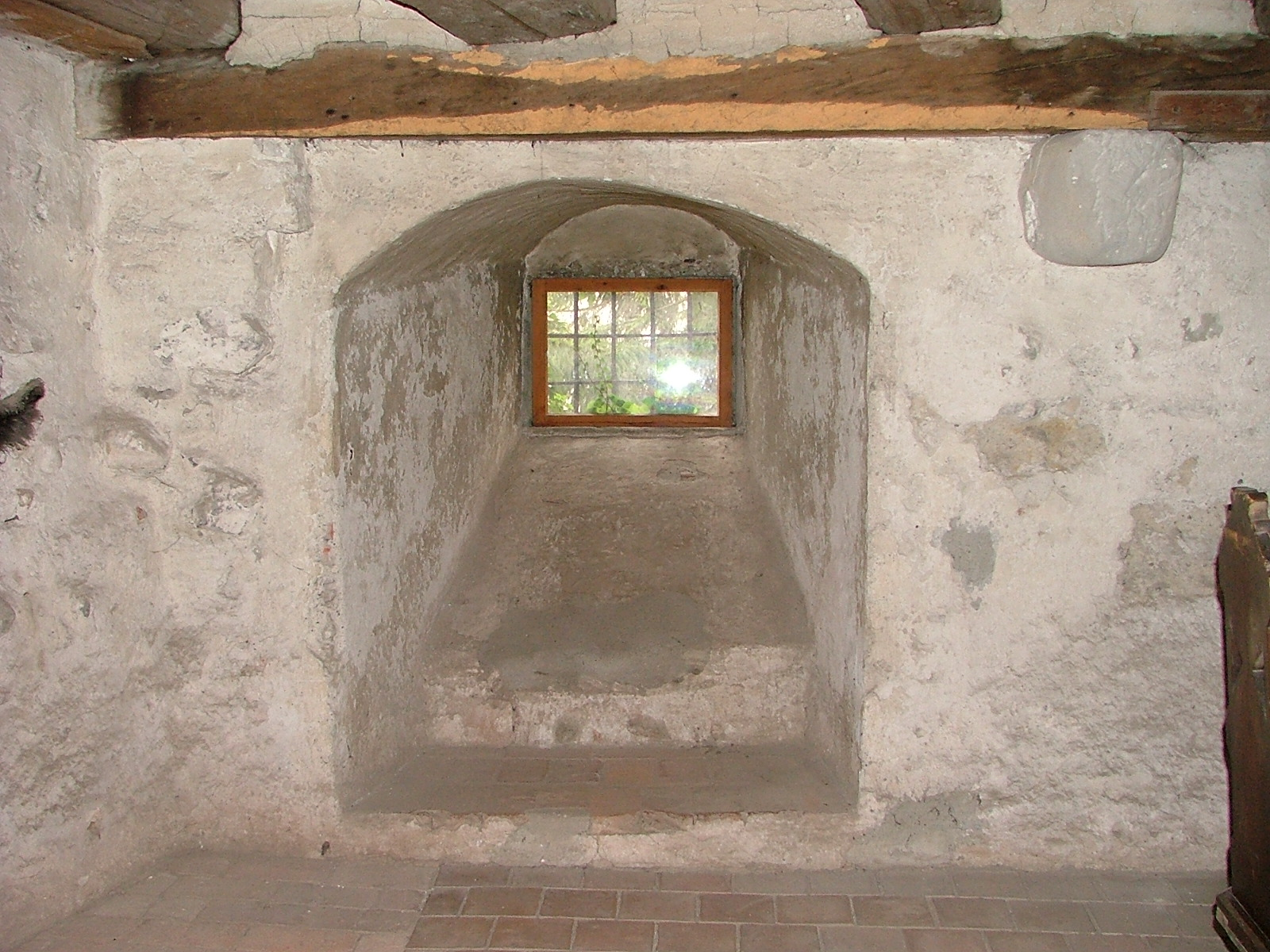 Guard room at Burg Meersburg on Lake Constance in southern Germany. The walls here are about 3m thick